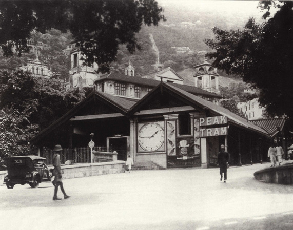 Peak tram at the turn of the century